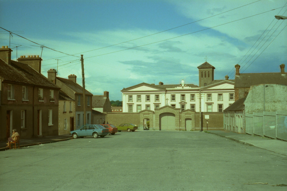 Clochar Mhuire, Sraid an Easpaig, Luimneach.